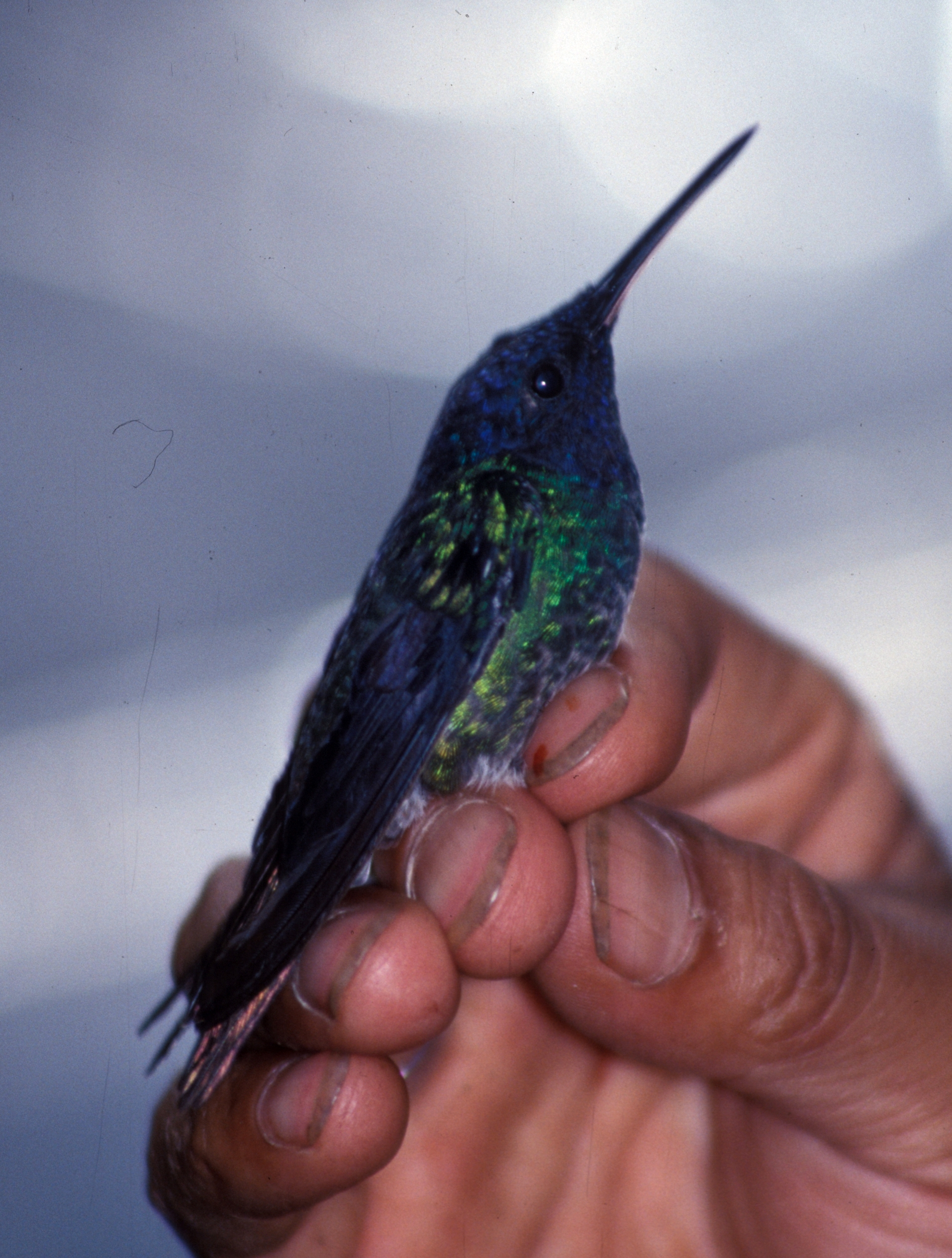 Golden-tailed Sapphire (Chrysuronia oenone). Male from Cordillera del Cóndor, Ecuador.